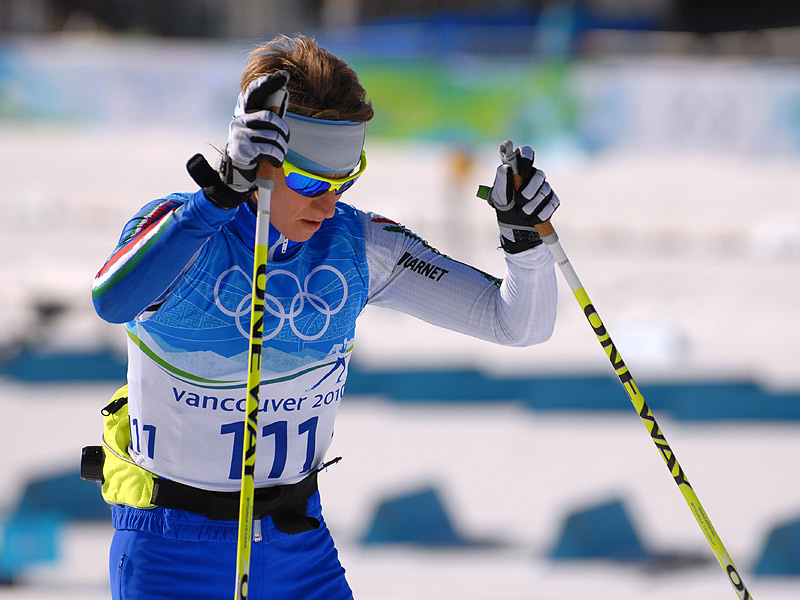 Marianna Longa at the Vancouver 2010 Olympics.